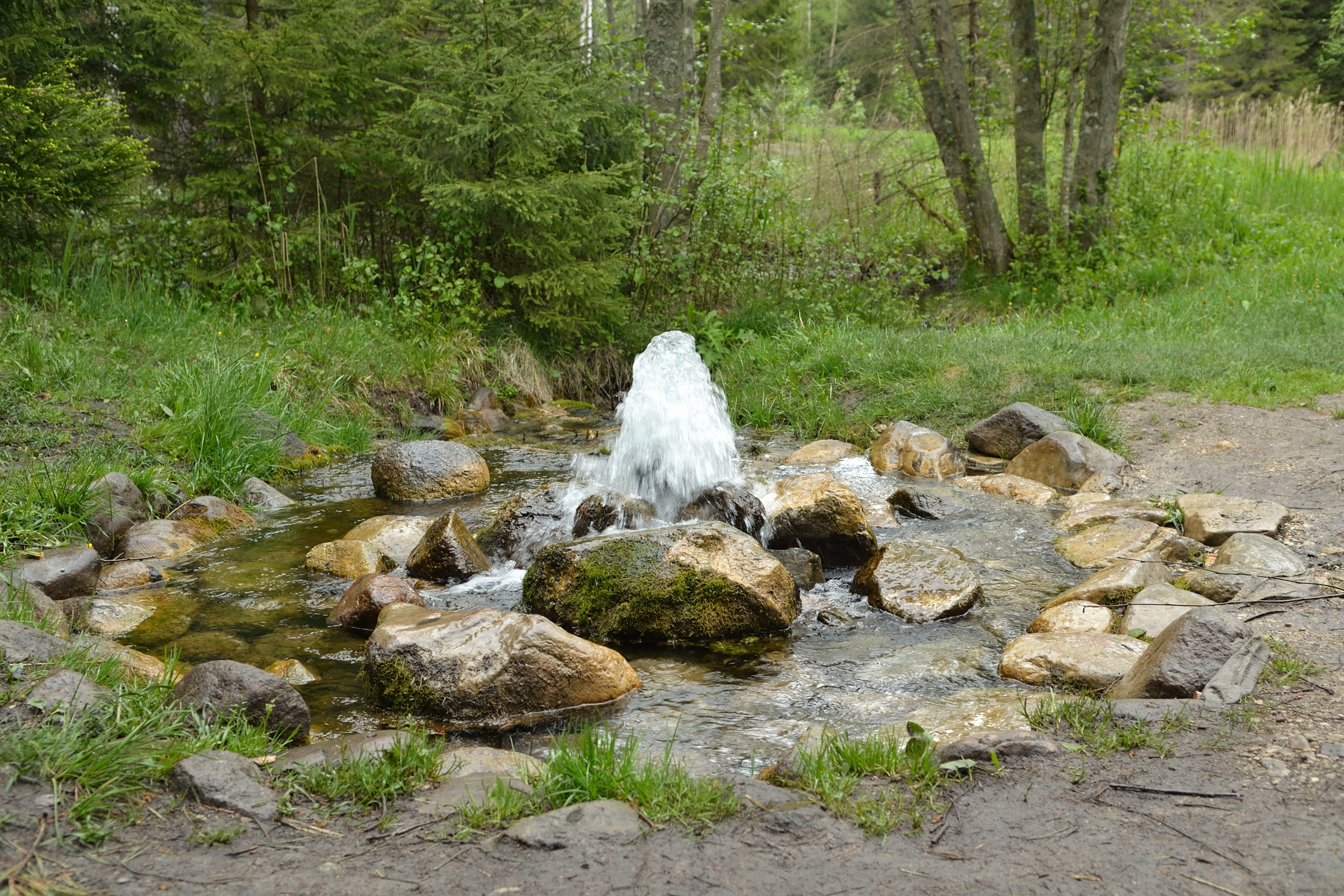 Man-made spring on Endla Nature Reserve